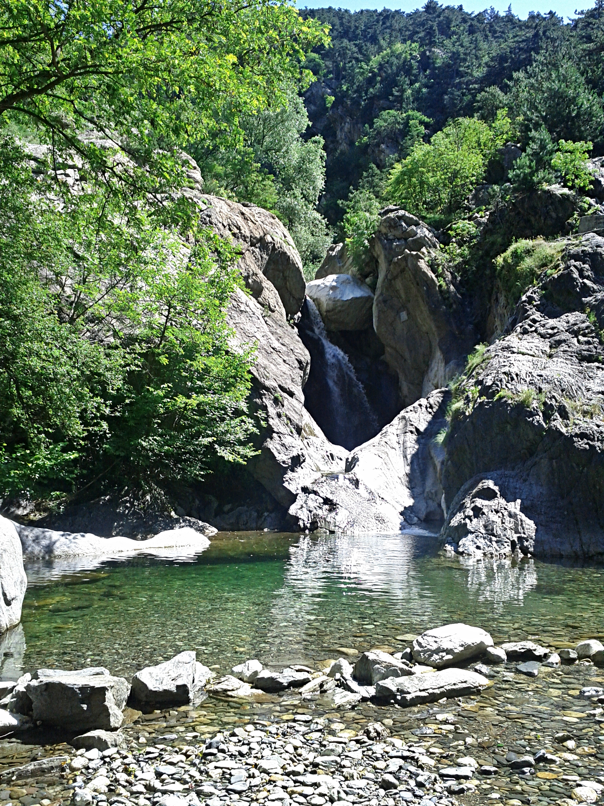 Waterfall "Suchurum", Karlovo